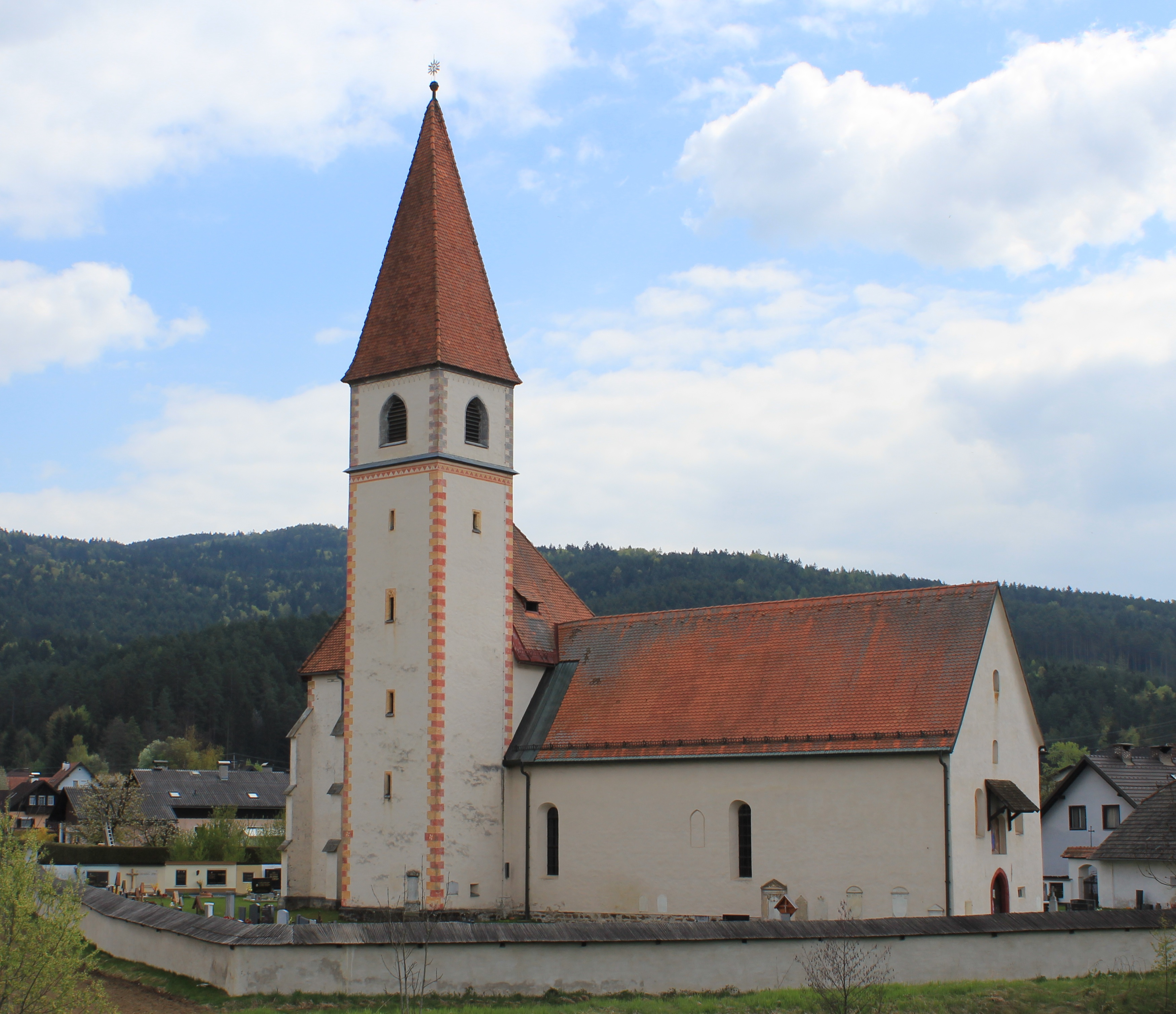 Filial-church "Assumption of Mary" in Einersdorf in the community Bleiburg